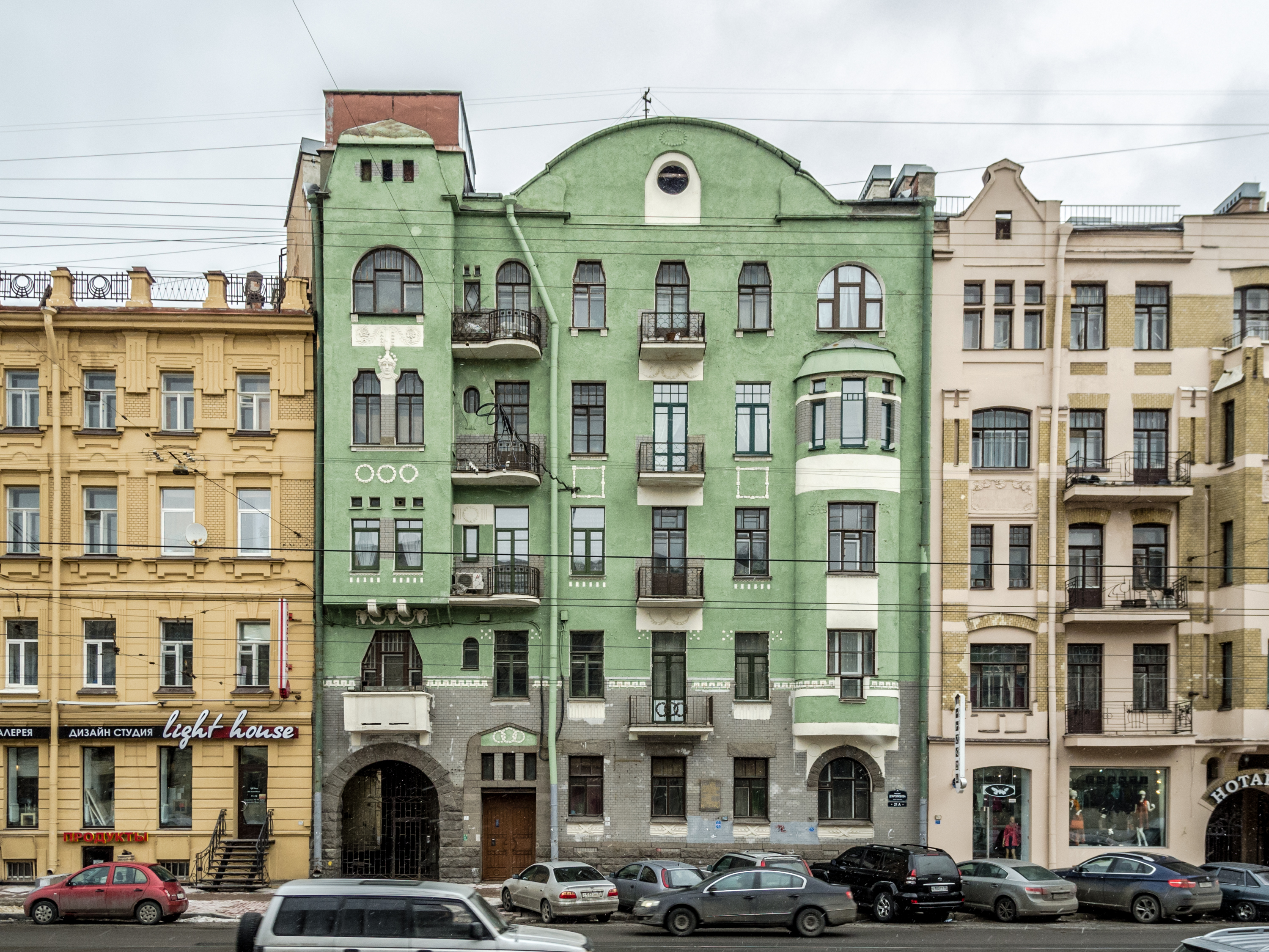 21A, Dobroljubova avenue, Saint Petersburg